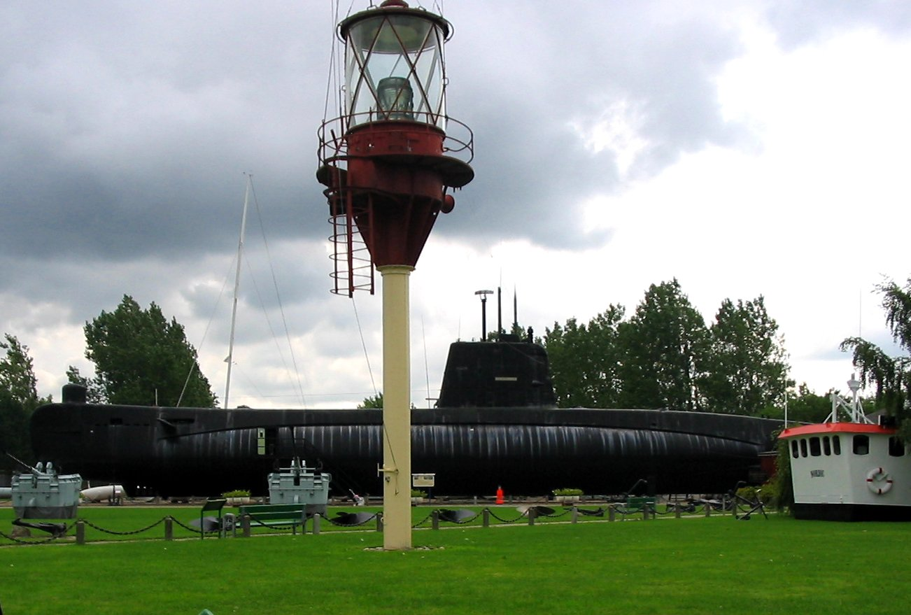 A former Royal Danish Navy submarine HDMS Springeren (S329), decommissioned on March 31, 1990, is on display. Picture taken in Aalborg Maritime Museum, Denmark.